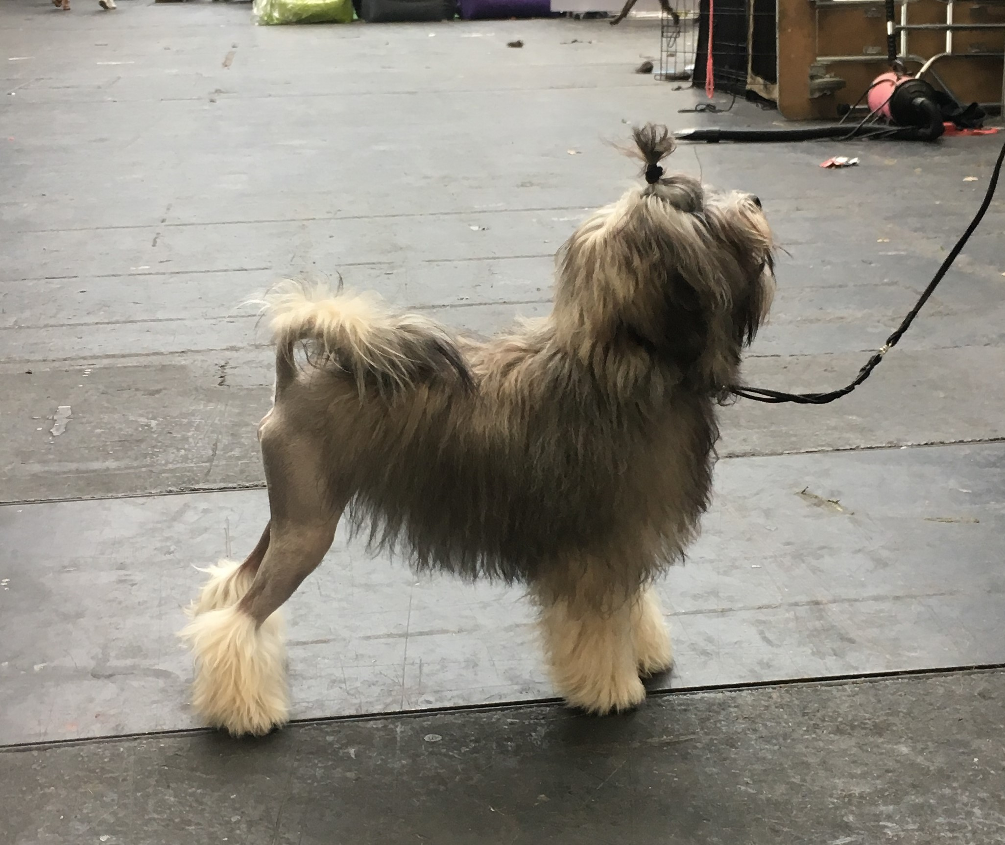 This is a 9 month old Lowchen puppy.